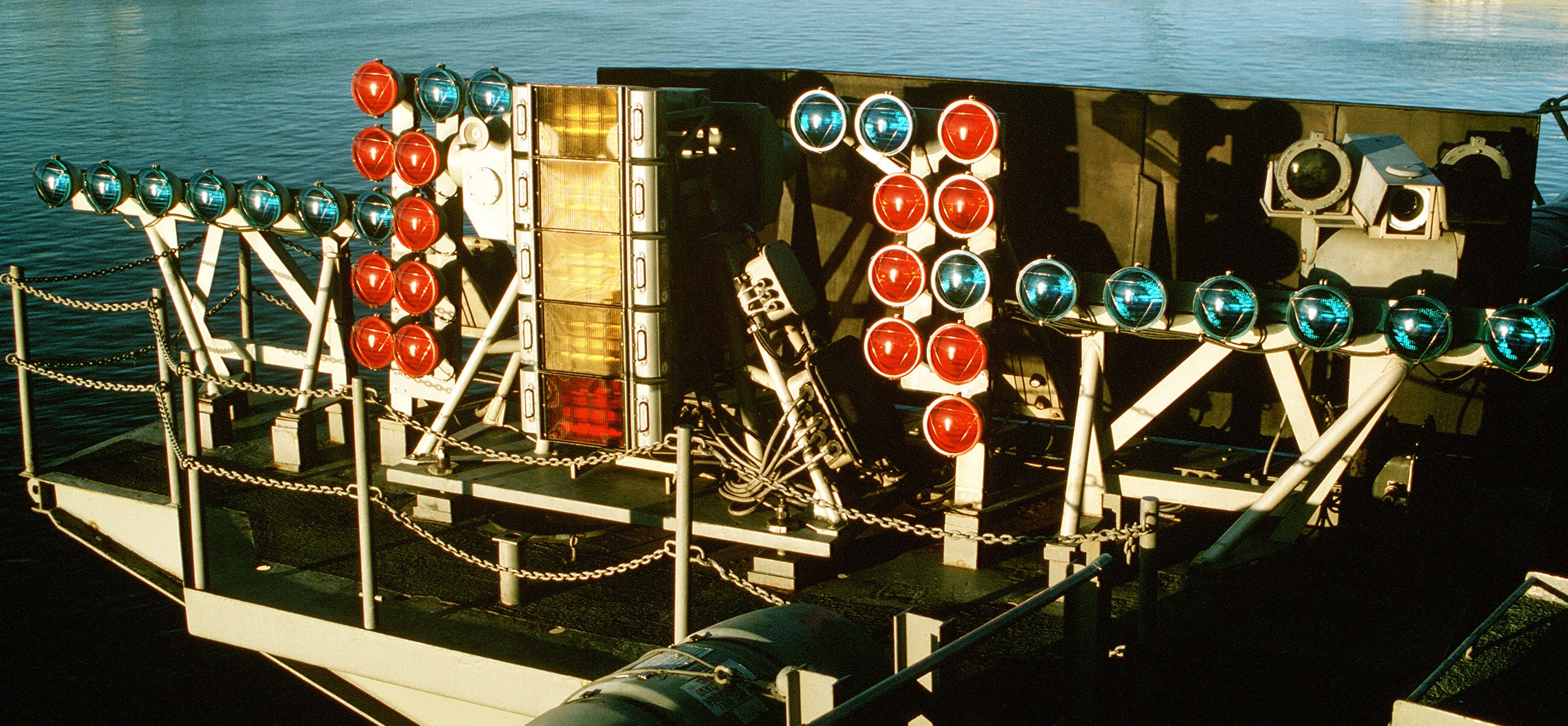 A close-up view of the Fresnel Lens Optical Landing System (FLOLS) on the deck edge assembly aboard the aircraft carrier USS JOHN F. KENNEDY (CV-67) during Fleet Ex 1-90.